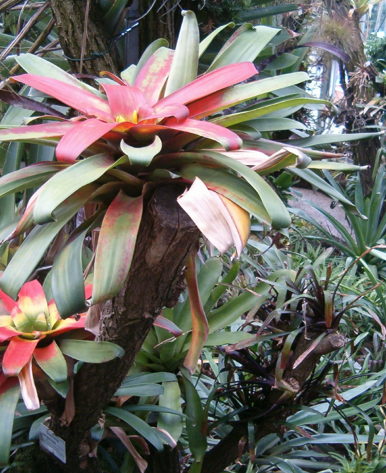 Species Guzmania sanguinea Guzmania sanguinea Habitus and Inflorescences in the Botanical Gardens Berlin Dahlem